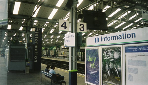 A picture of Queens Park railway station, London July 2007